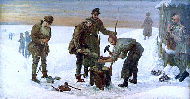 Evening - Applying handcuffs